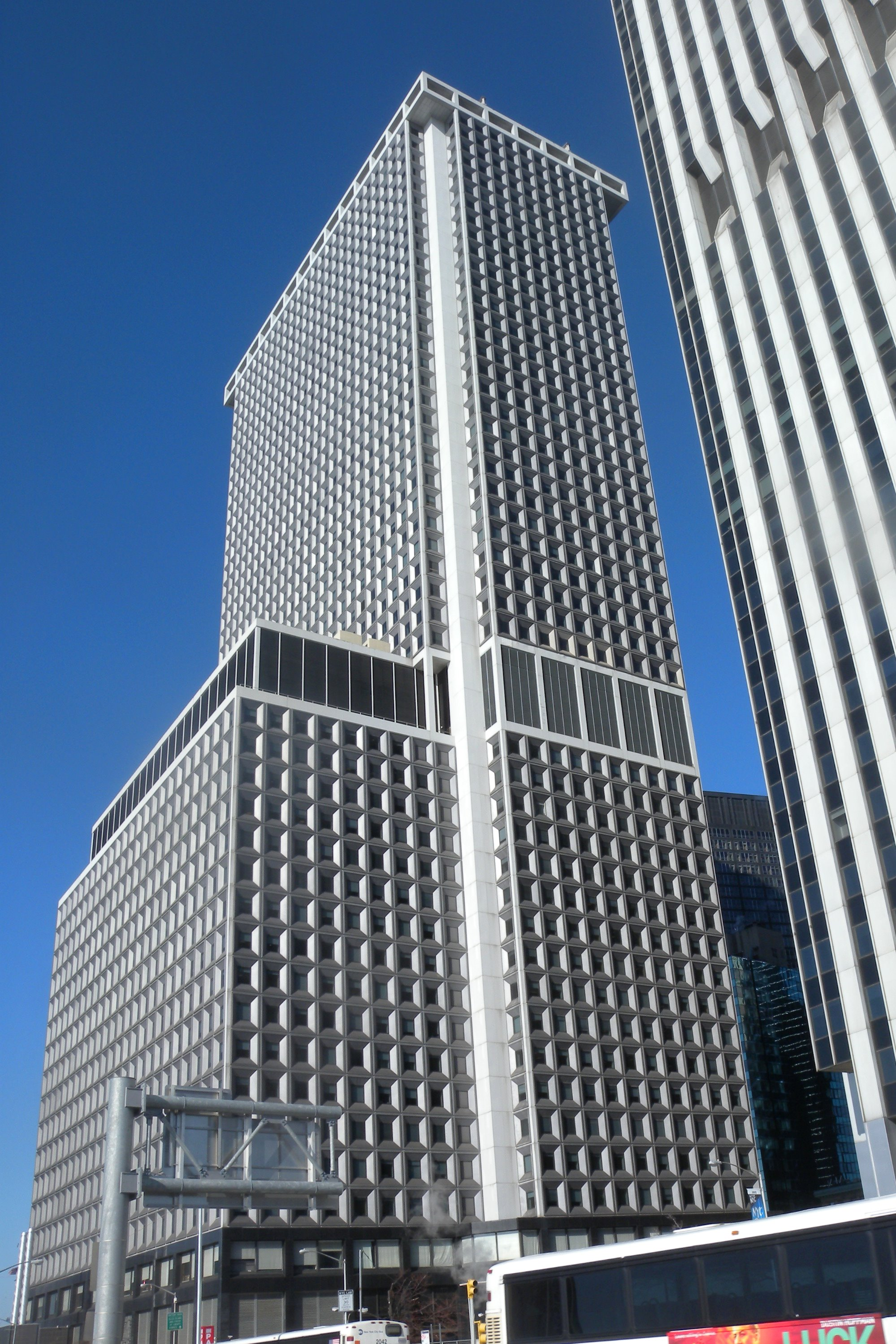 Looking west across Broad Street and FDR Drive at 1 New York Plaza on a sunny morning.